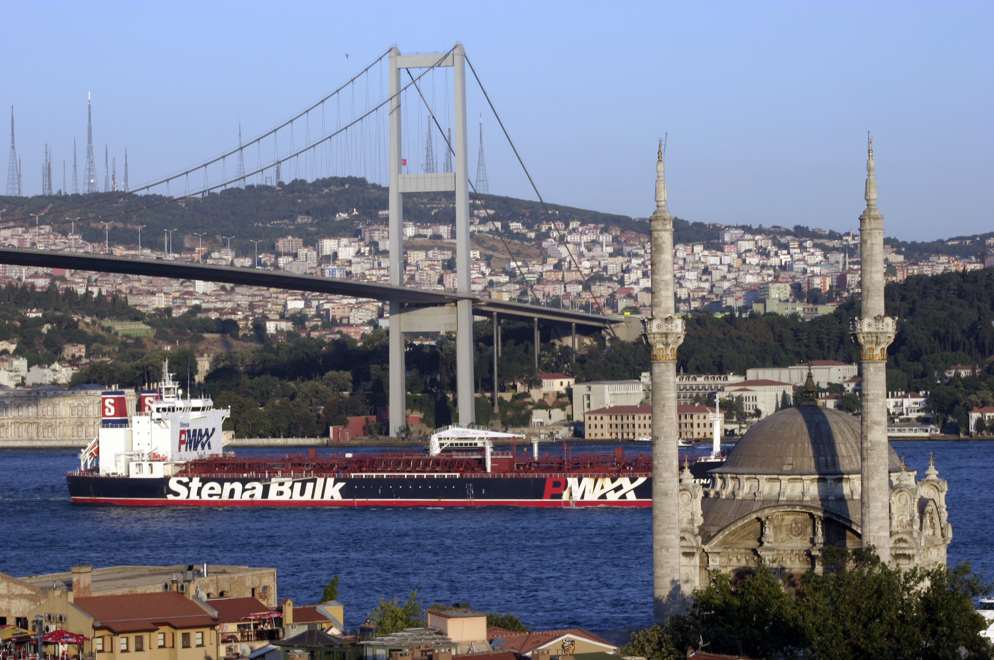 Ortaköy Mosque and Bosphorus Bridge